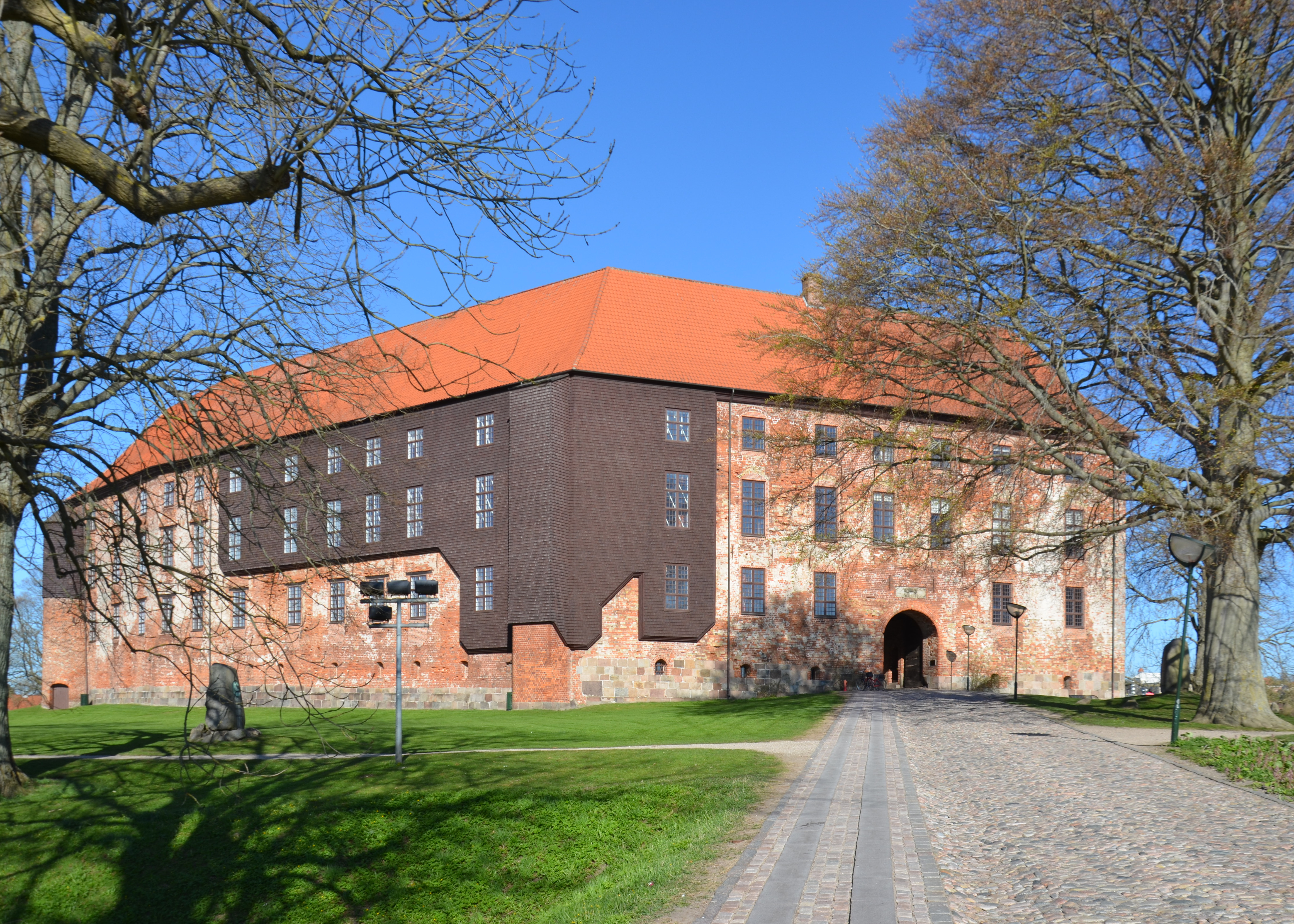 Koldinghus, entrance side